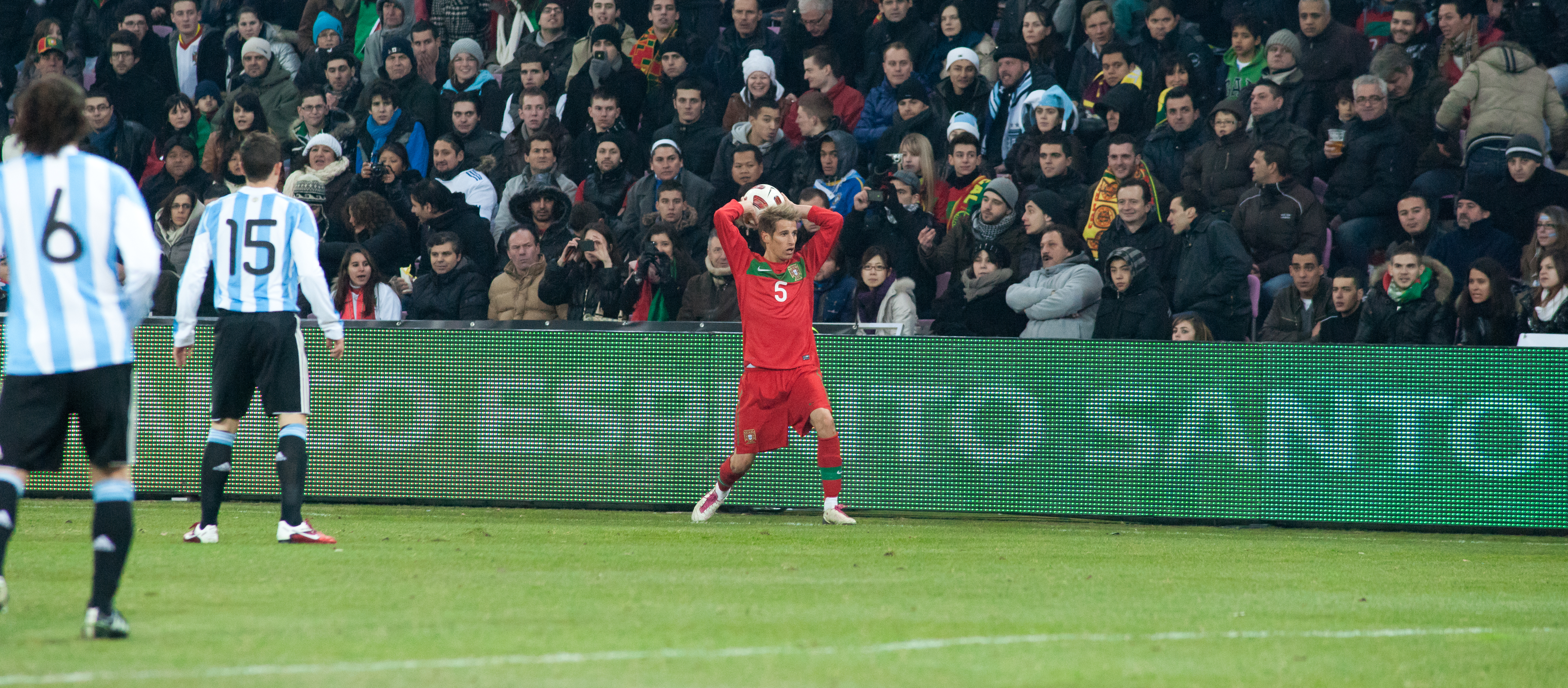 The making of this document was supported by Wikimedia CH. (Submit your project!) For all the files concerned, please see the category Supported by Wikimedia CH. Portugal vs. Argentina, 9th February 2011